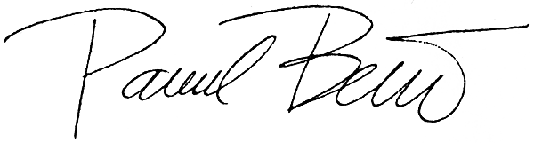 Signature of Czech politician Pavel Bém